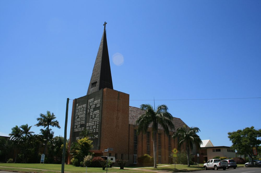 Description